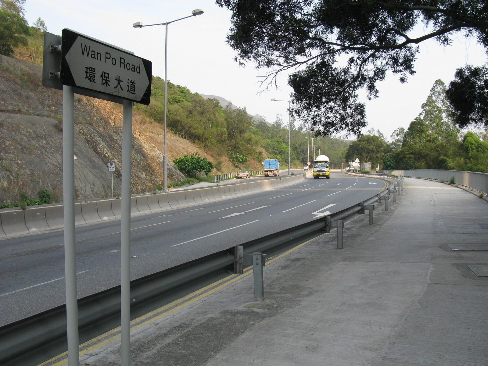 Wan Po Road, near Pung Loi Avenue